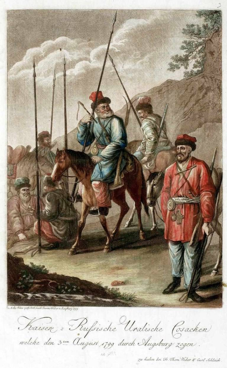 Urals Cossacks